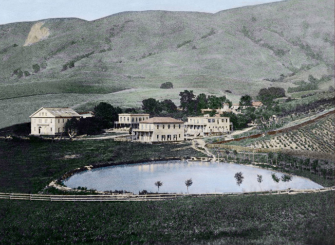 Leland Stanford Winery — in 1869 Leland Stanford bought the Rancho Agua Caliente, and founded a winery and planted vineyards there. Site located in present day Fremont, Alameda County, California A California Historical Landmark in Alameda County.